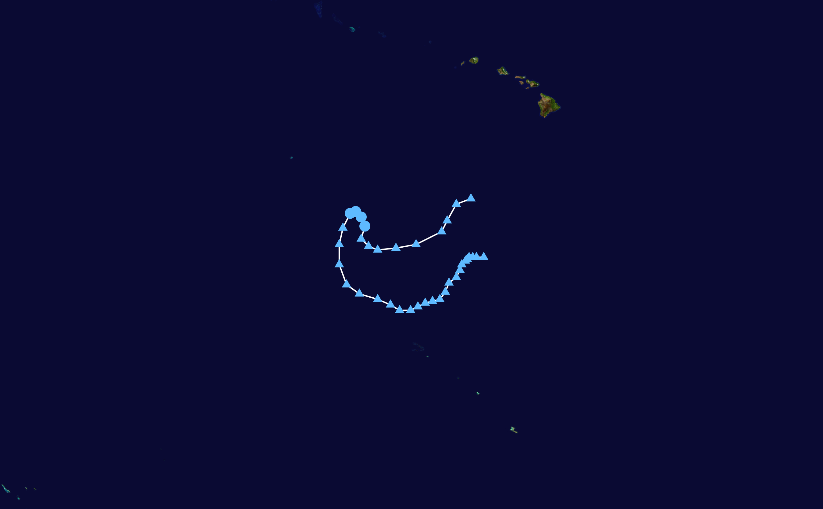 Track map of Tropical Depression Four-C of the 2006 Pacific hurricane season. The points show the location of the storm at 6-hour intervals. The colour represents the storm's maximum sustained wind speeds as classified in the Saffir–Simpson scale (see below), and the shape of the data points represent the nature of the storm, according to the legend below. Saffir–Simpson scale Tropical depression≤38 mph≤62 km/h Category 3111–129 mph178–208 km/h Tropical storm39–73 mph63–118 km/h Category 4130–156 mph209–251 km/h Category 174–95 mph119–153 km/h Category 5≥157 mph≥252 km/h Category 296–110 mph154–177 km/h Unknown Storm type Tropical cyclone Subtropical cyclone Extratropical cyclone / Remnant low / Tropical disturbance / Monsoon depression